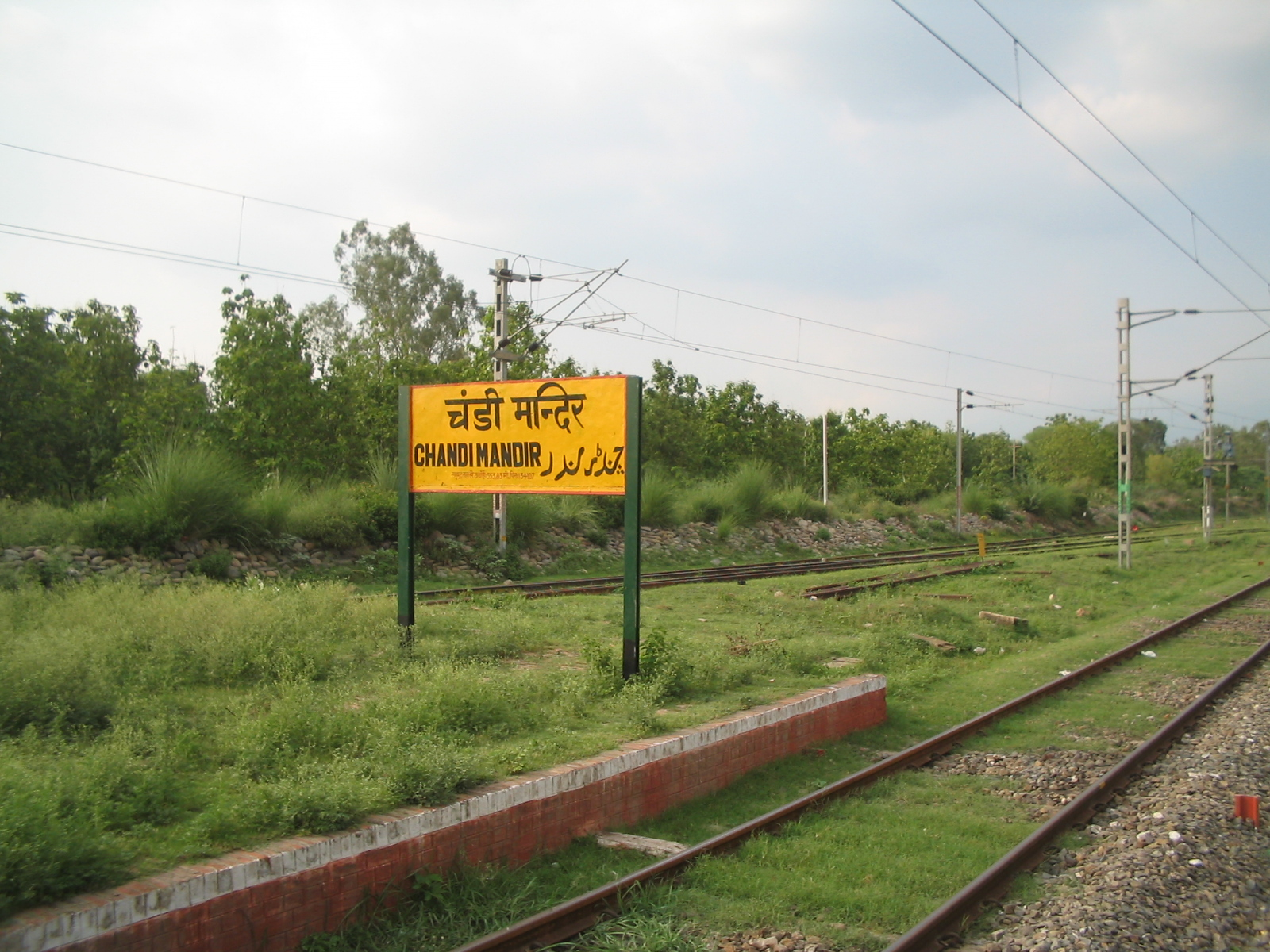 Chandimandir Cantonment Railway Station marker, shot during returning from Shimla Trip of 2007 of Gopal Aggarwal and his family + step-mother Asha + step-brother Vivek